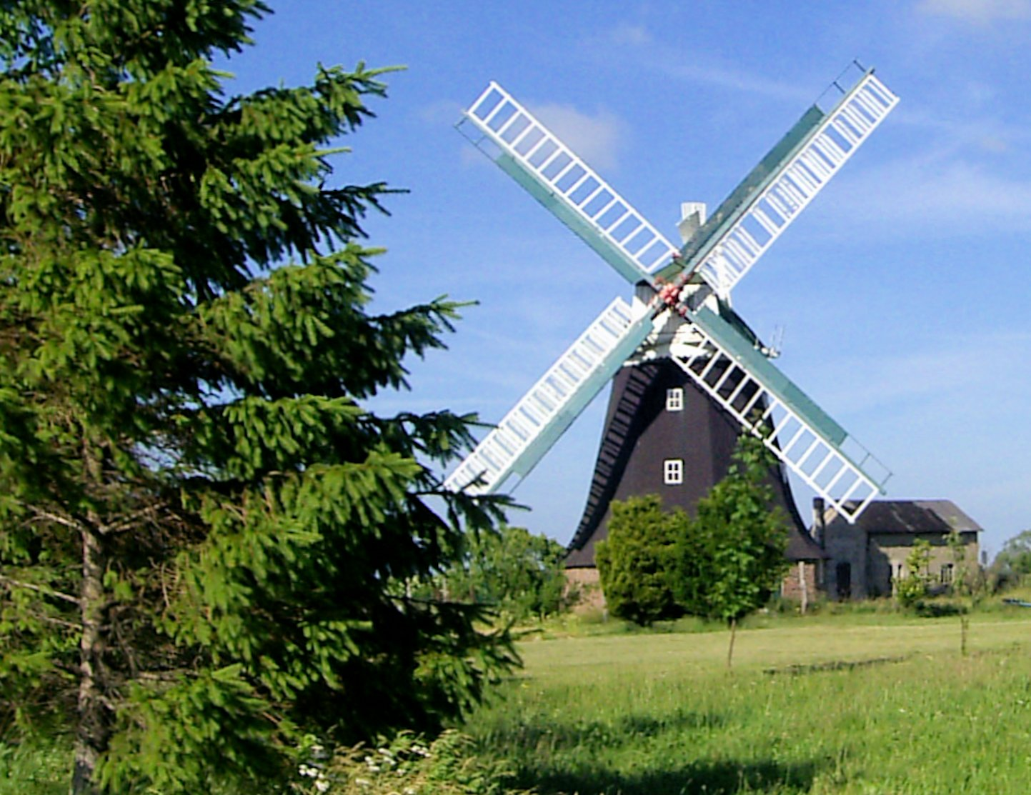 Rövershagen Mill near Rostock, Germany